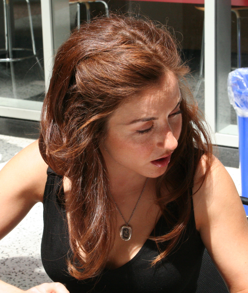 Actress Erin Karpluk at the CBC Doors Open Toronto event